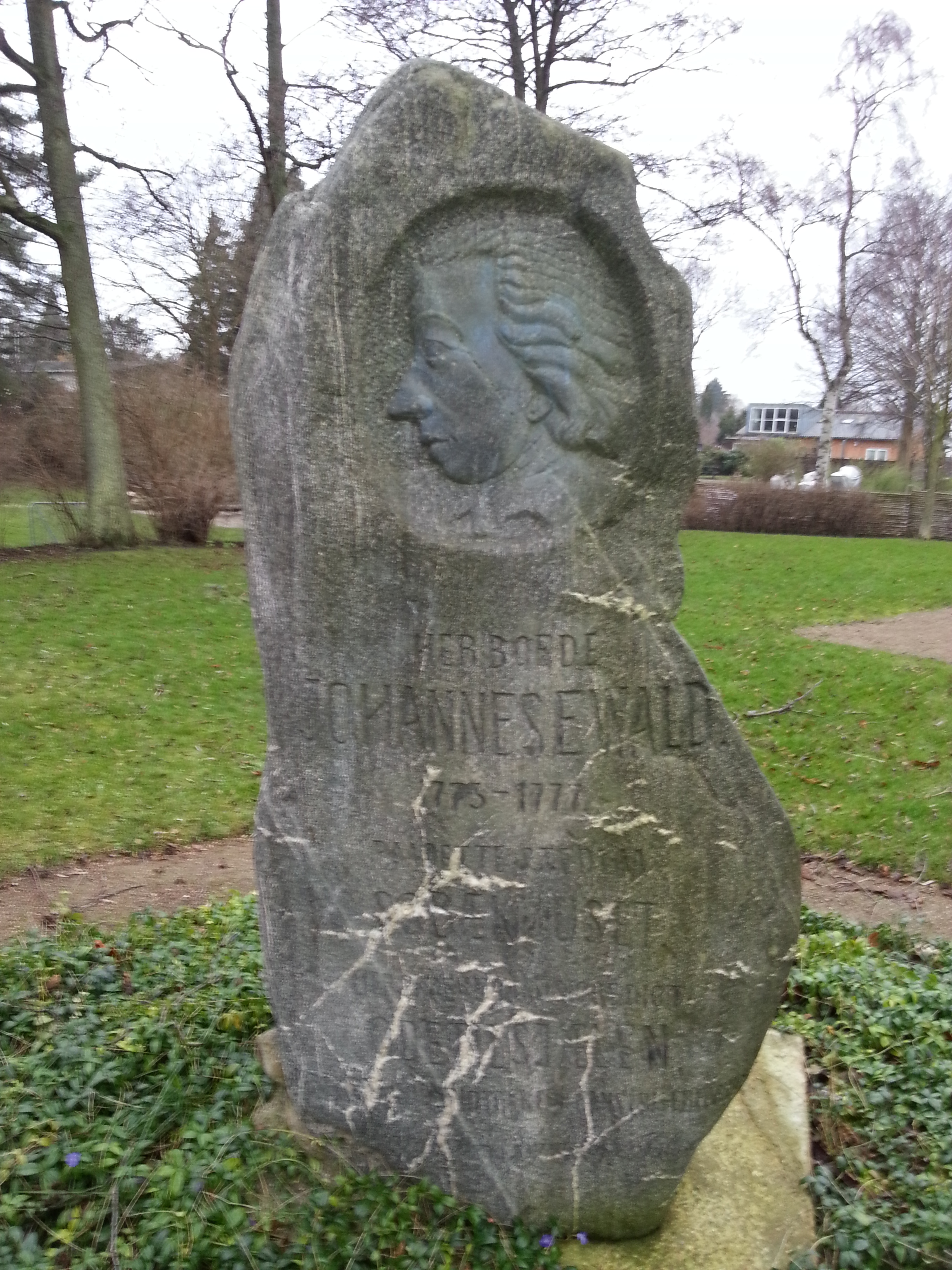 Memory of Johannes Ewald in Espergærde 2